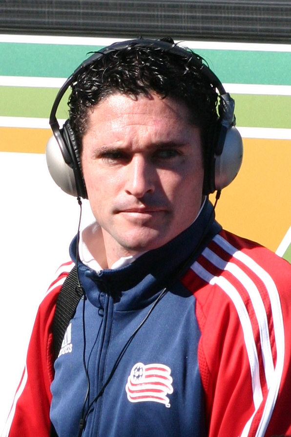 Photos taken at MLS Cup 2006. The Houston Dynamo defeated the New England Revolution 4-3 on penalties after the two teams drew 1-1 at the end of extra time. 11/12/2006 Pizza Hut Park, Frisco, Texas.